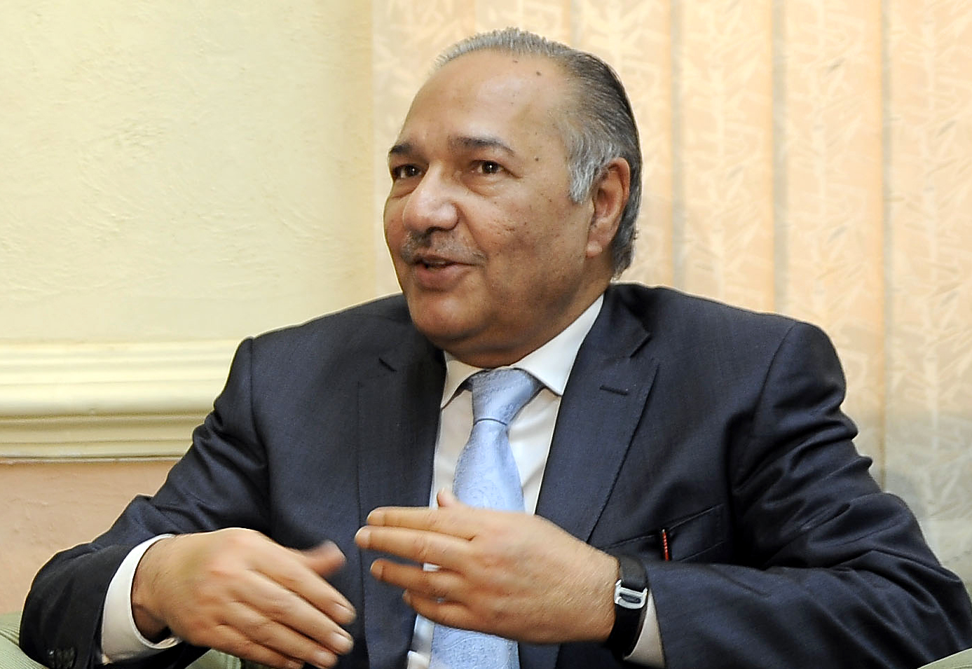 U.S. Defense Secretary Robert M. Gates talks with Pakistani Minister of Defense Ahmad Mukhtar in Islamabad, Pakistan, Jan. 21, 2010.